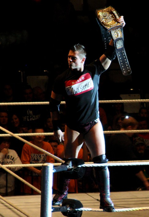 The Miz, rubbing his new title in everyones faces. No bueno.